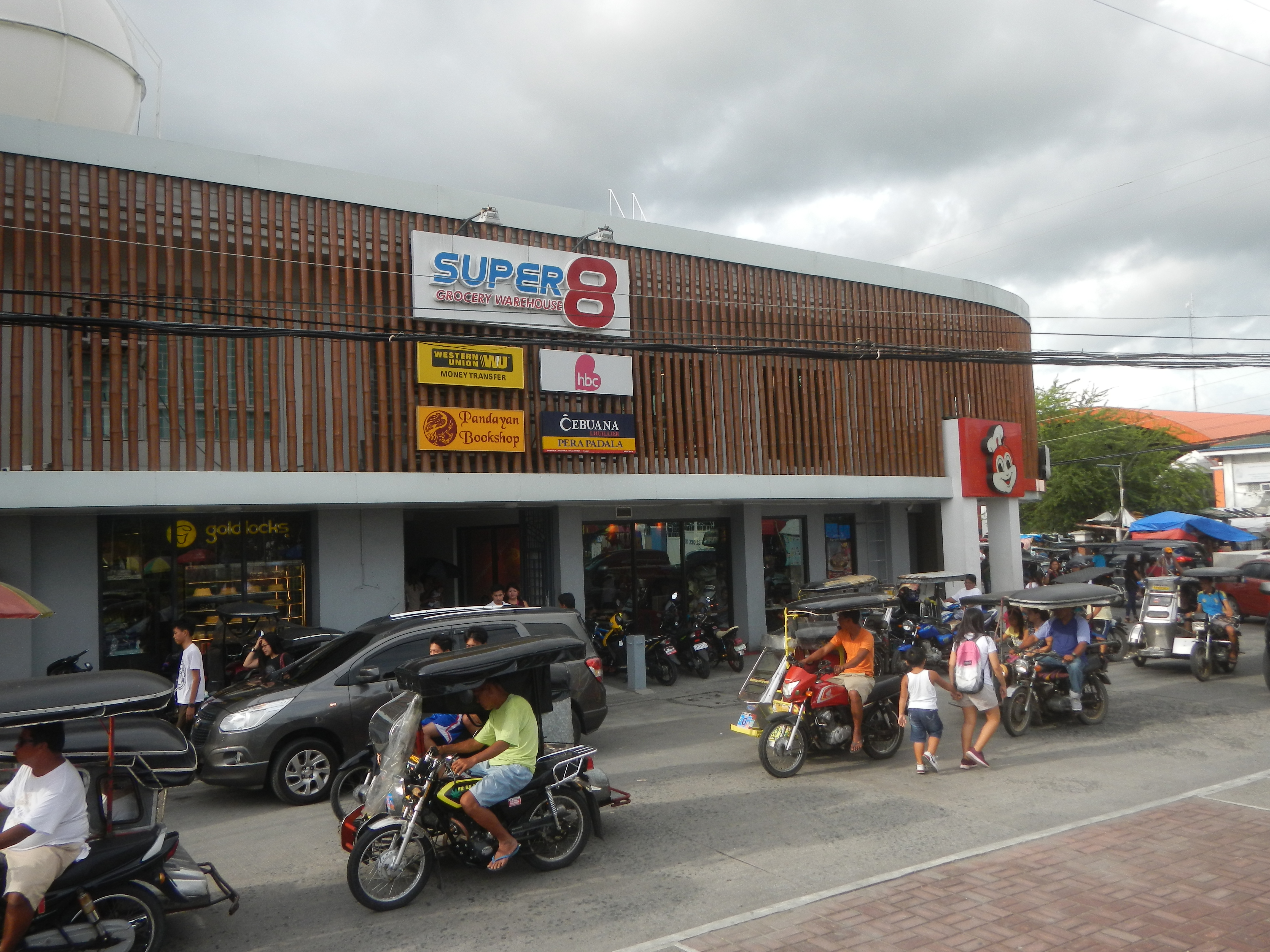 Super 8 Grocery Warehouse Hagonoy East Central School, Bulacan Hagonoy, Bulacan Municipal Park and Fountain St. Mary's Academy (Hagonoy, Bulacan) National Shrine of St. Anne (Hagonoy, Bulacan) Saint Anne Catholic School (Hagonoy, Bulacan) in Hagonoy Town Proper Barangays Santo Niño 14°50'26"N 120°44'33"E San Sebastian 14°49'42"N 120°44'14"E San Nicolas 14°48'58"N 120°43'50"E San Agustin 14°50'59"N 120°44'44"E Hagonoy, Bulacan (Note: Judge Florentino Floro, the owner, to repeat, Donor Florentino Floro of all these photos Judge Floro hereby donate gratuitously, freely and unconditionally all these photos to and for Wikimedia Commons, exclusively, for public use of the public domain, and again without any condition whatsoever).